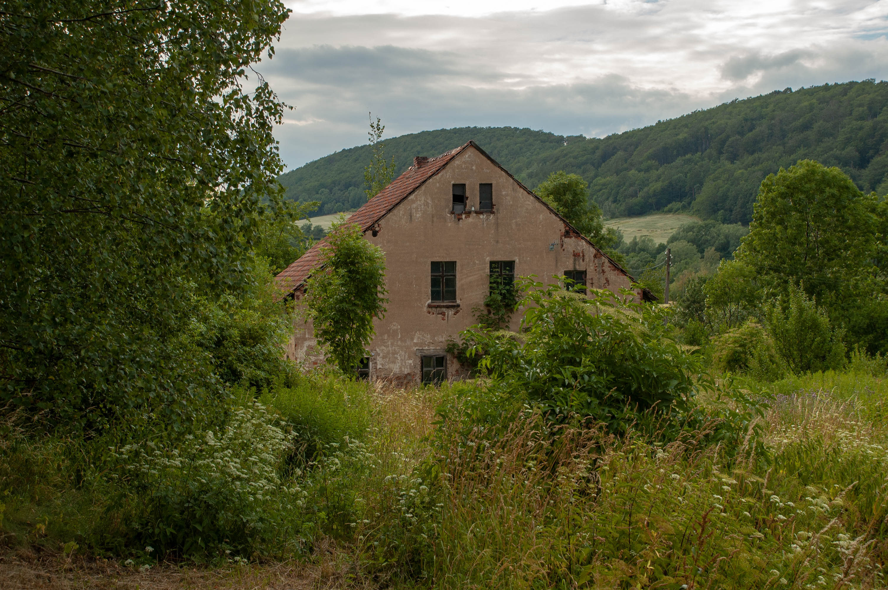 This photograph was created as a part of Wikiexpedition Lower Silesia, a project supported by Wikimedia Poland grant.